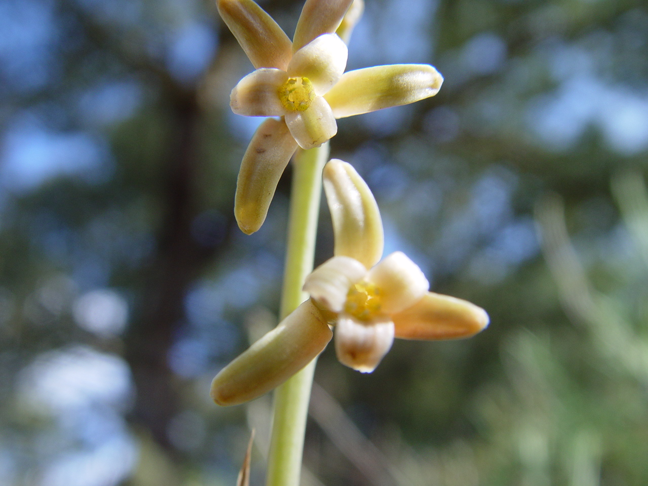 Dipcadi flowers